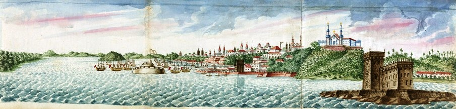 View of Fort St. George and the Port of Madras in 1790.